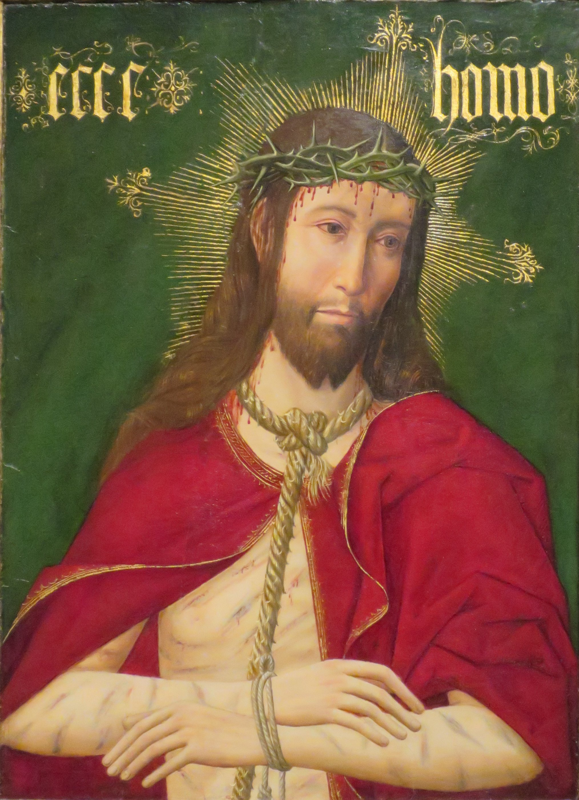 Master of Osma (Spain, Castile, died N/A) Christ with the Crown of Thorns, circa 1500 Painting, Tempera on panel, 29 x 24 1/2 in. (73.66 x 62.23 cm); framed: 29 1/4 x 21 3/4 x 1 1/2 in. (74.30 x 55.25 x 3.81 cm); sight: 26 3/4 x 19 in. (67.95 x 48.26 cm) Los Angeles County Museum of Art Gift of Dr. and Mrs. Herbert T. Kalmus (53.52)